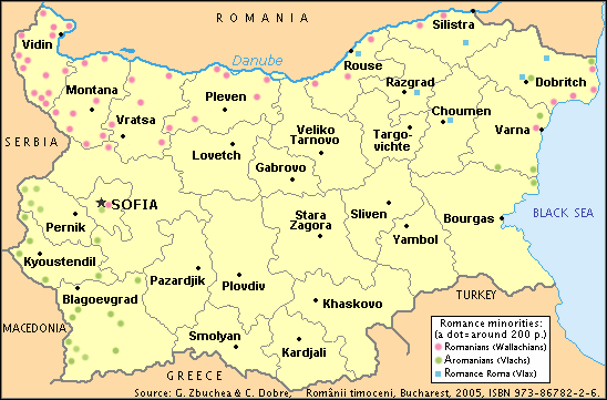 Romance minorities of Bulgaria